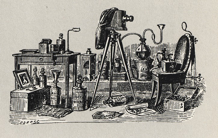 camera equipment of an Swedish portrait-daguerreotypist about 1850